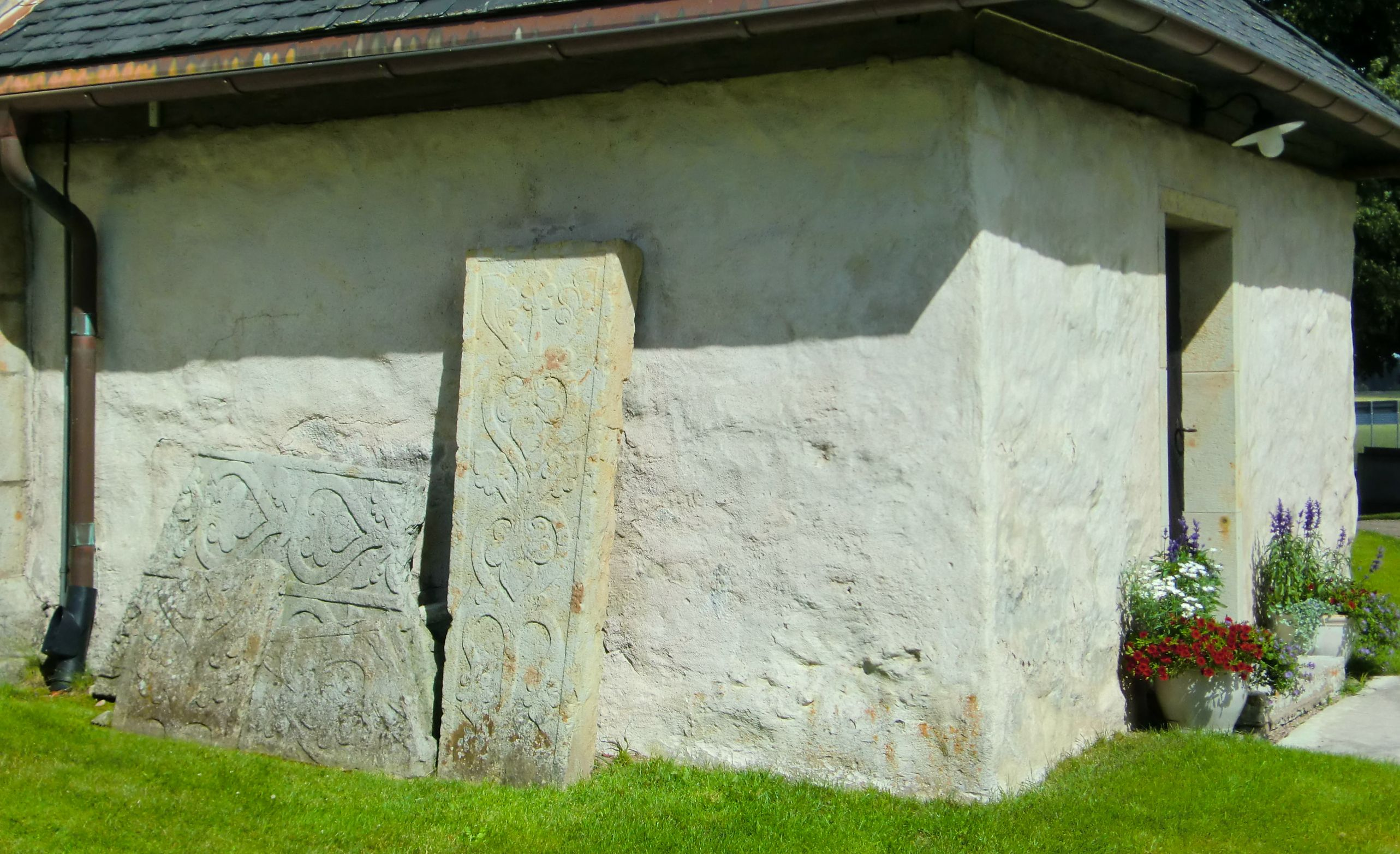 Four of the fourteen Tree of Life slabs, and fragments, found in the vicinity of Kinne-Vedum parish church, at Kinnekulle, Sweden.